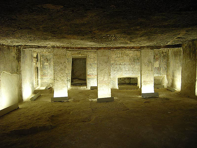 Meir, Tomb A1 of Ni-ankh-Pepy-Kem, Egypt